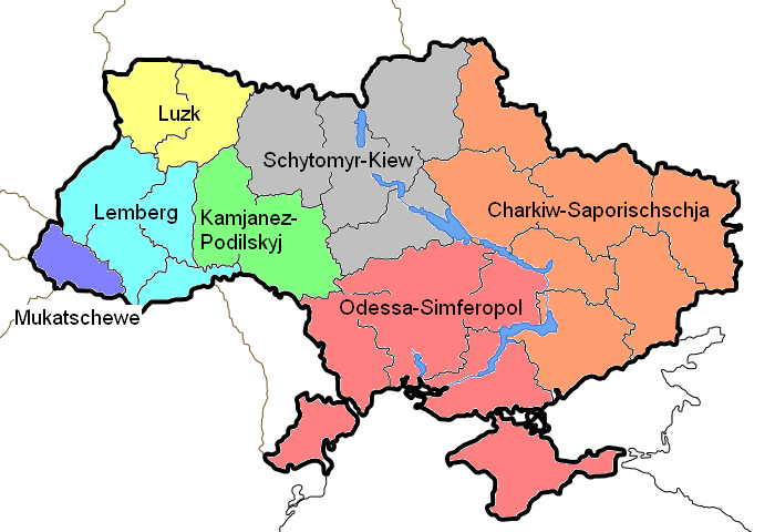 Map of roman-catholic dioceses in Ukraine, names in German spelling